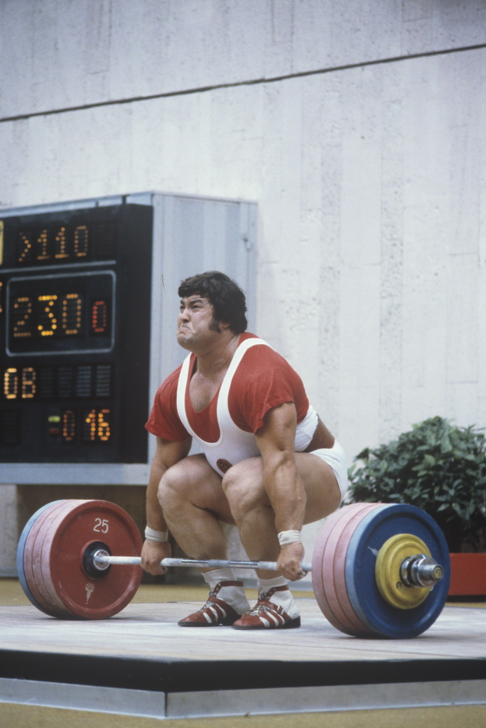 “Weight lifter Sultan Rakhmanov”. Weight lifter Sultan Rakhmanov at weightlifting competition. Champion of XXII Olympics in super heavyweight (snatch - 195kg., jerk - 245kg., total 440 kg.) July 19 - August 3, 1980.